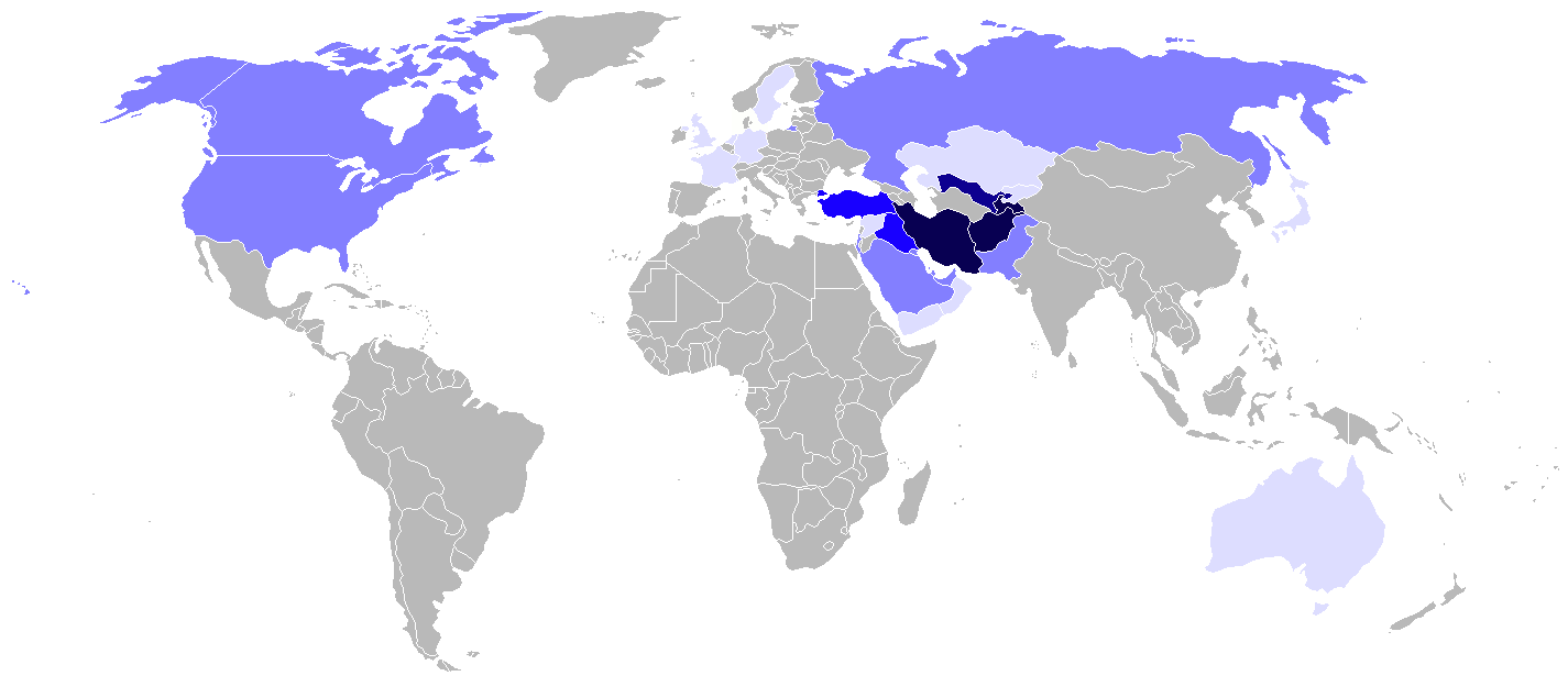 Map showing the presence of Persian speakers in the countries of the world by shades of blue.